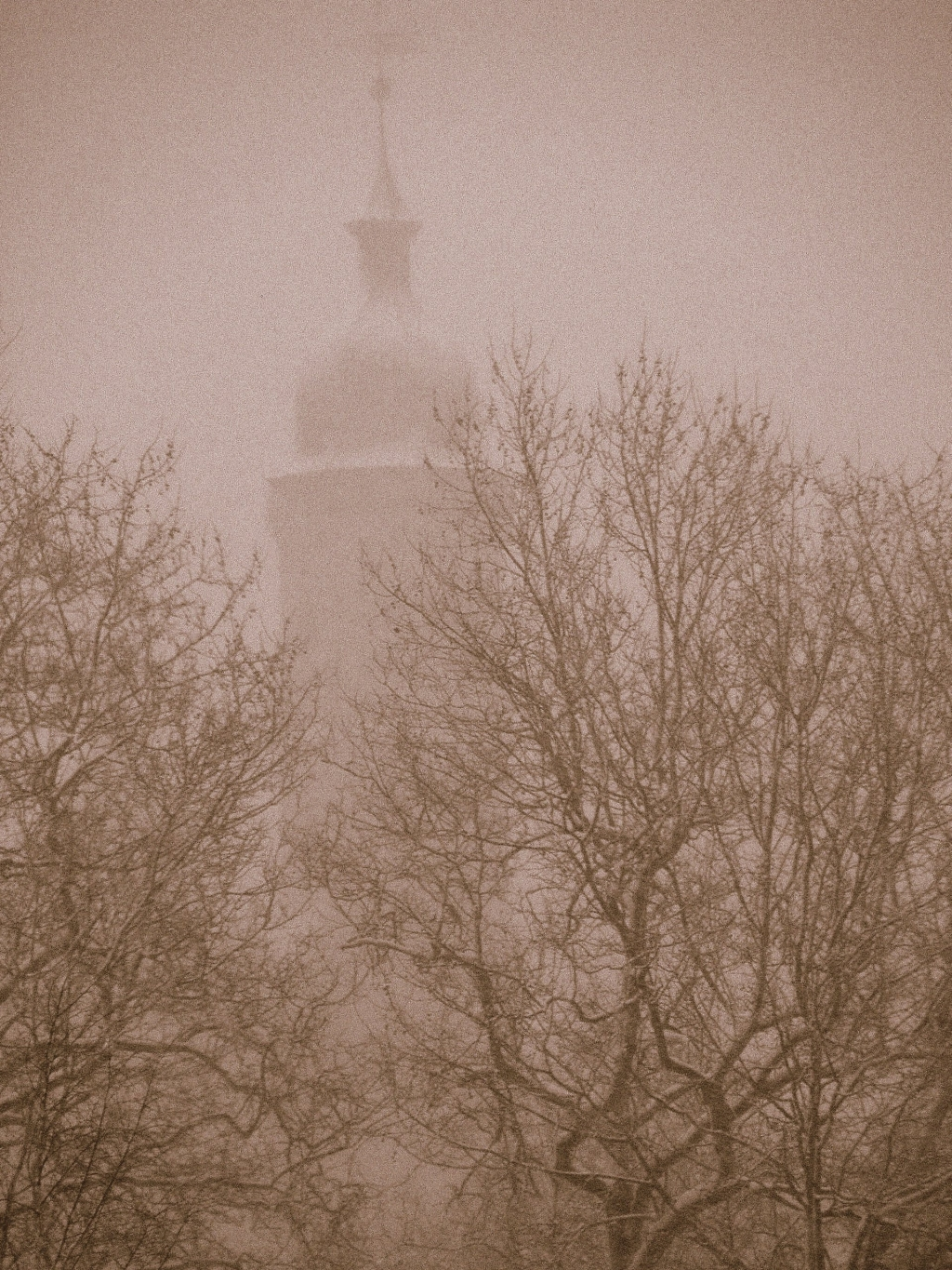 Brunswick, Germany: Snow falls heavy on St. Andrews Church.